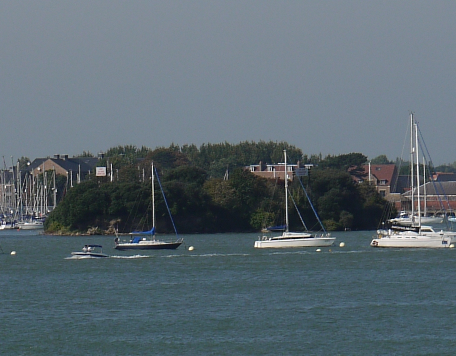 Photo of Burrow Island taken from Portsmouth (to be precise the stern of HMS warrior.